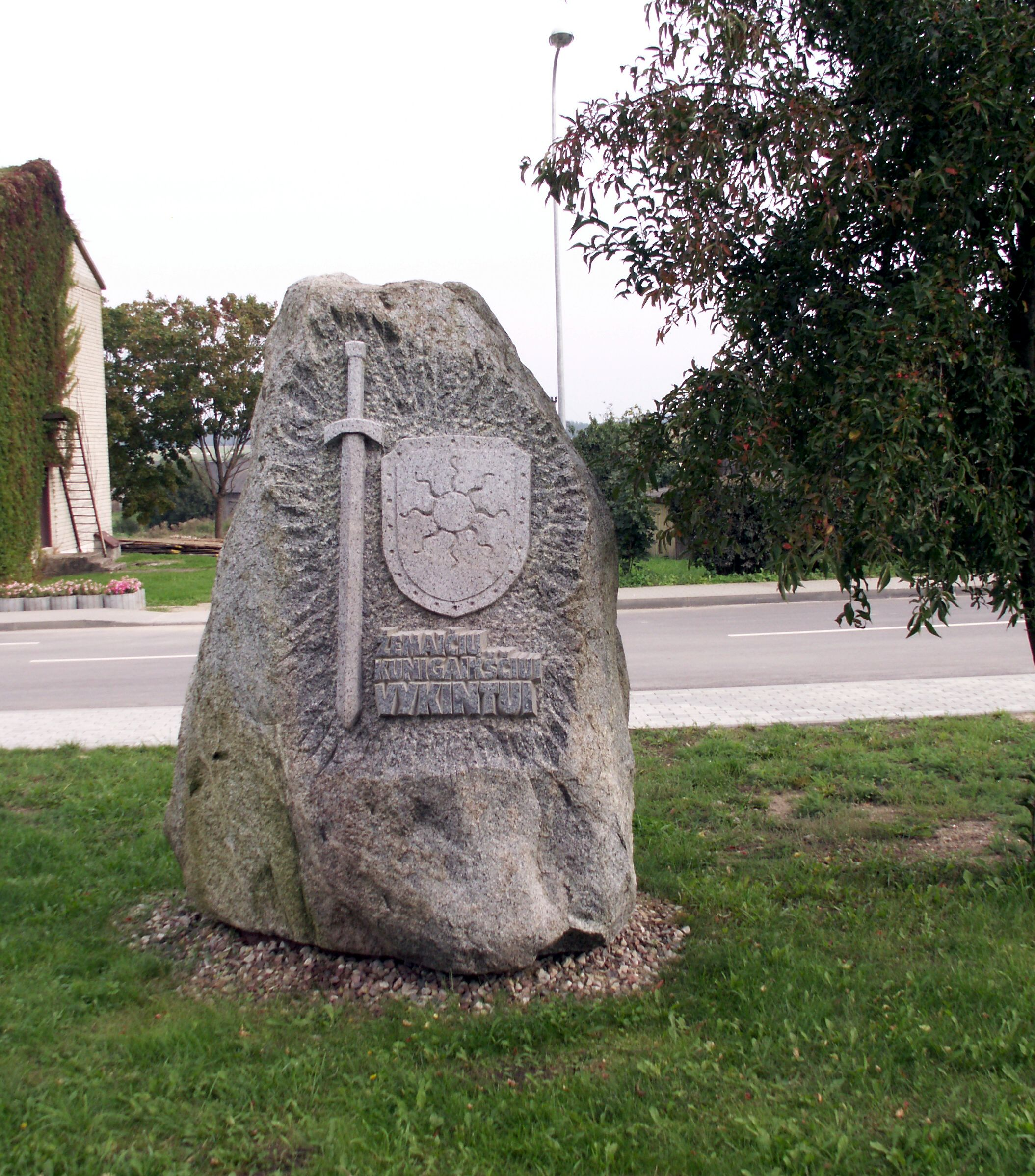 Tverai, Lithuania